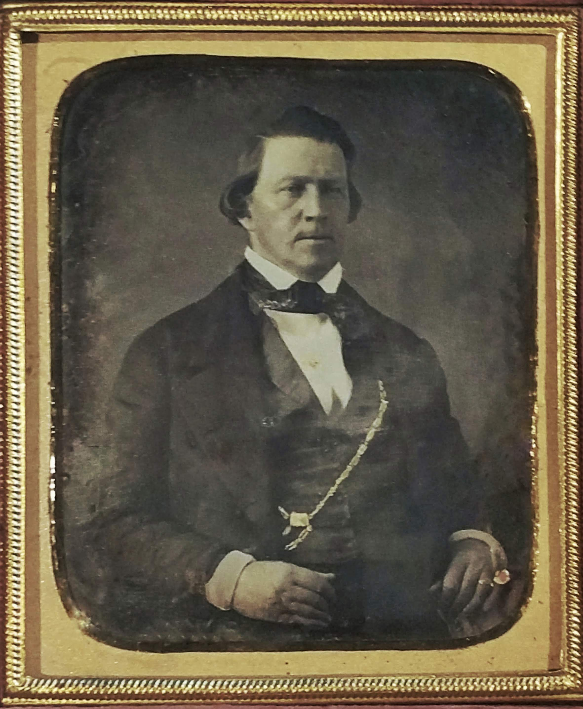 Portrait of Brigham Young taken by Marsena Cannon in Salt Lake City in 1853. It was owned at one point by Young's daughter Clarissa Young Spencer who gave it to biographer Preston Nibley in the 30s, whose family then donated it to BYU in 2005.